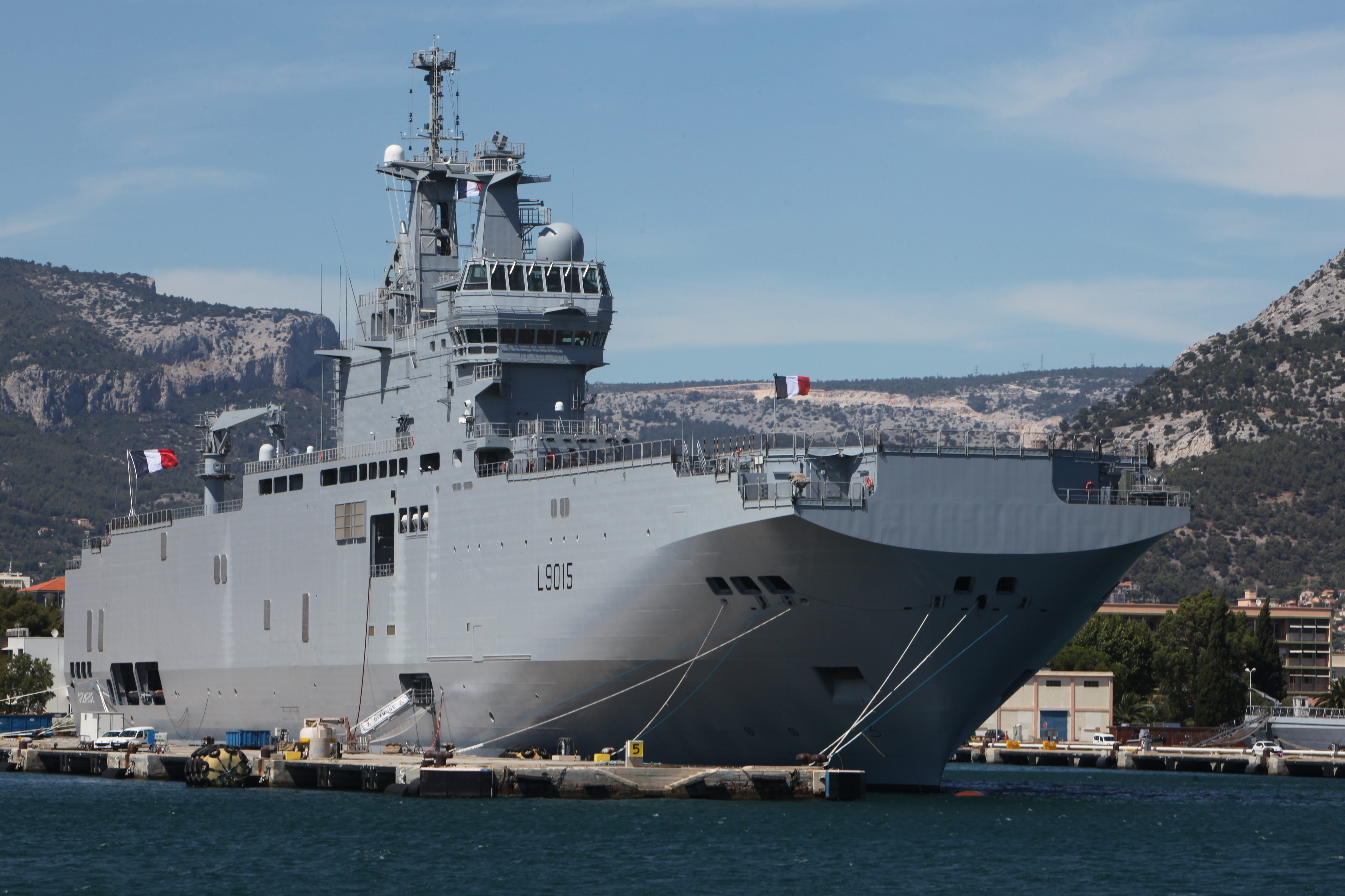 The BPC Dixmude (L9015) on the 14th of July 2011, one day after she arrived in Toulon from Saint-Nazaire for fitting out.